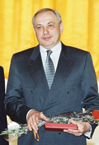 GRAND KREMLIN PALACE, MOSCOW. Russian Minister of Science and Technology Mikhail Kirpichnikov receiving the 1999 State Science and Technology Prize.